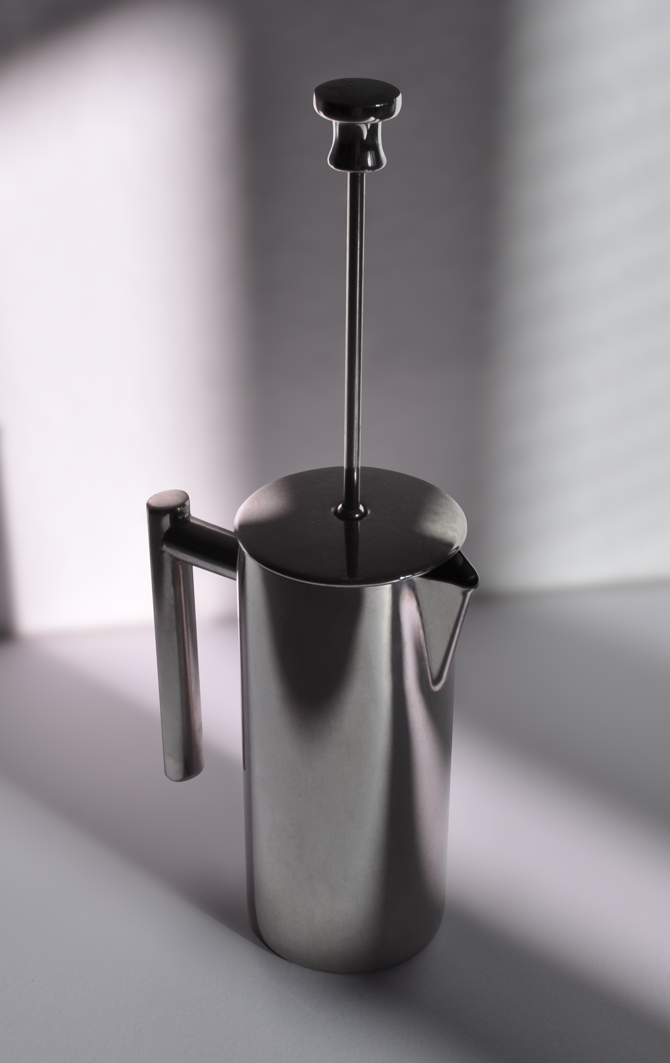 A stainless steel French press manufactured by Alfi